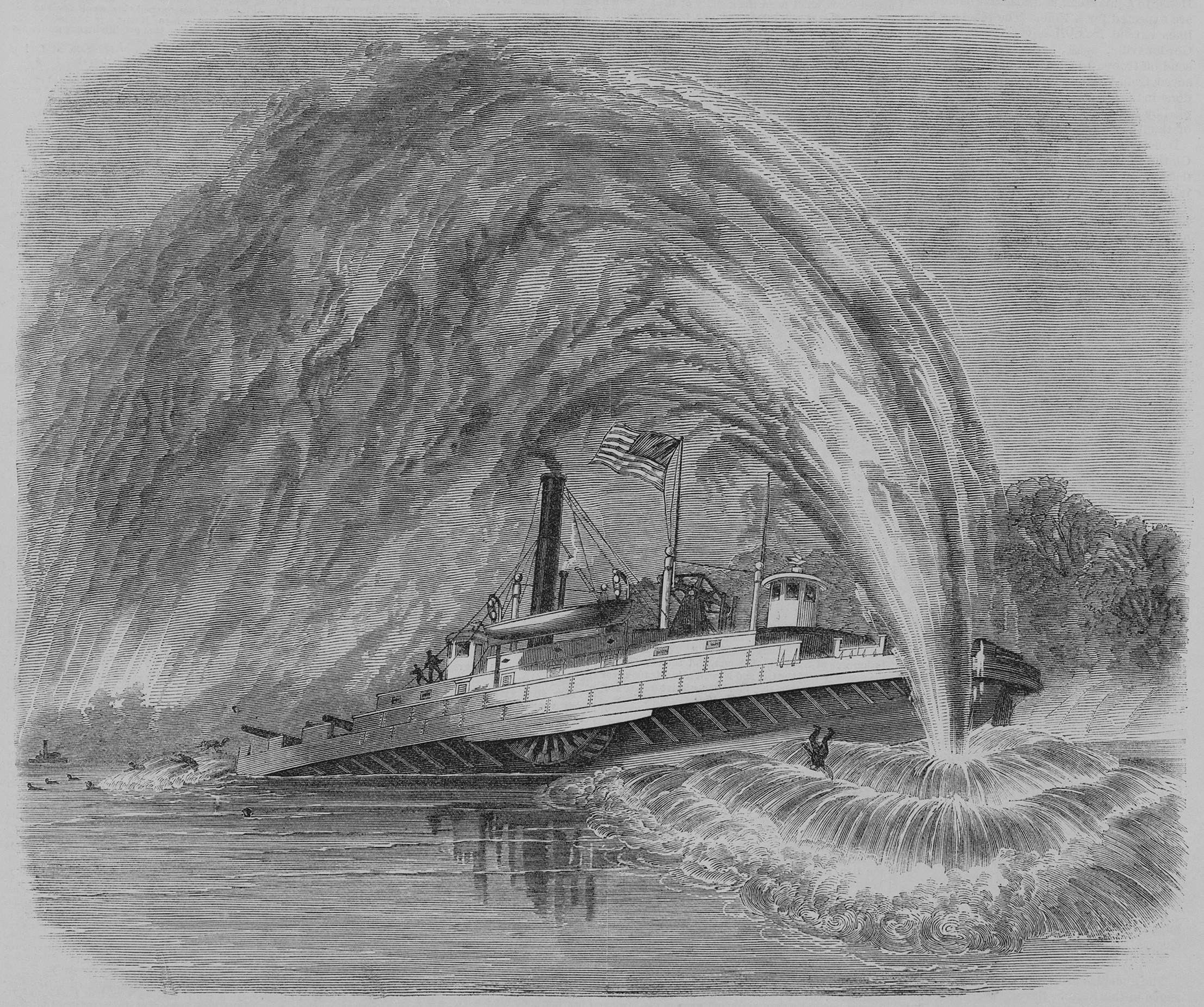 The American ferryboat USS Commodore Barney, damaged by a "torpedo" (i.e. mine) on the James River in 1863.